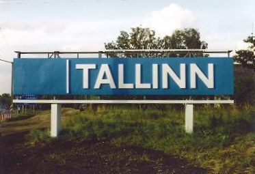 Tallinn (town sign)